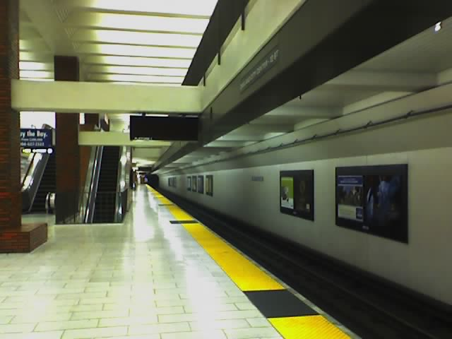 12th Street BART station